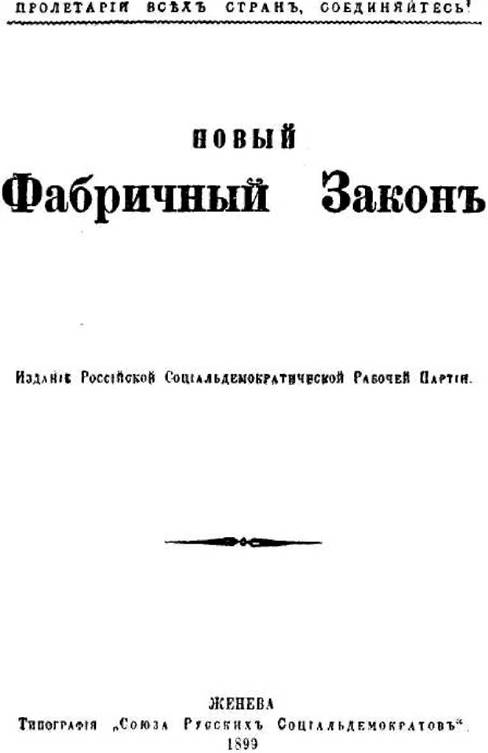 Title page Lenin's work «New Factory Law»